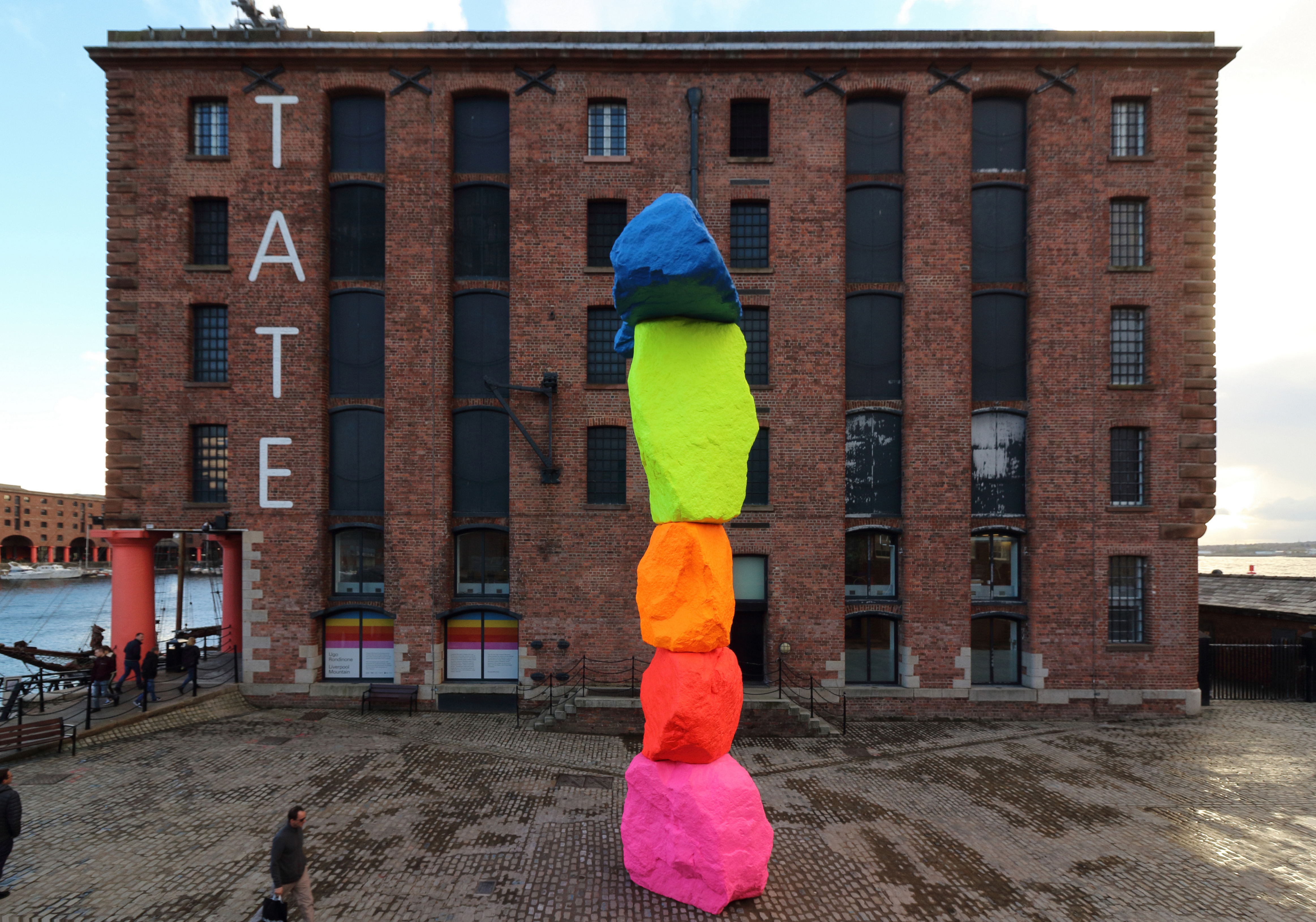 View in front of Tate Liverpool.